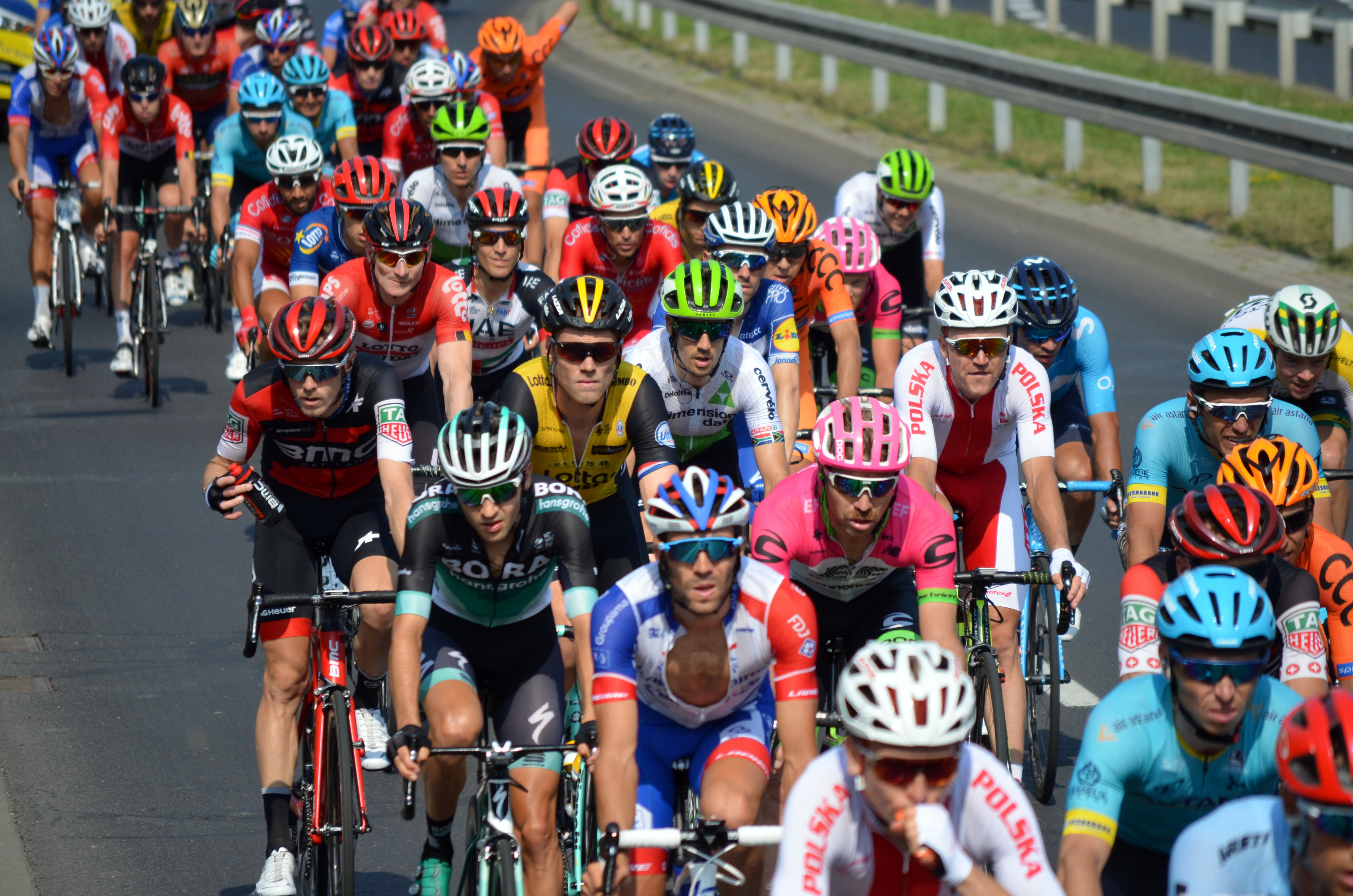 Tour de Pologne 2018